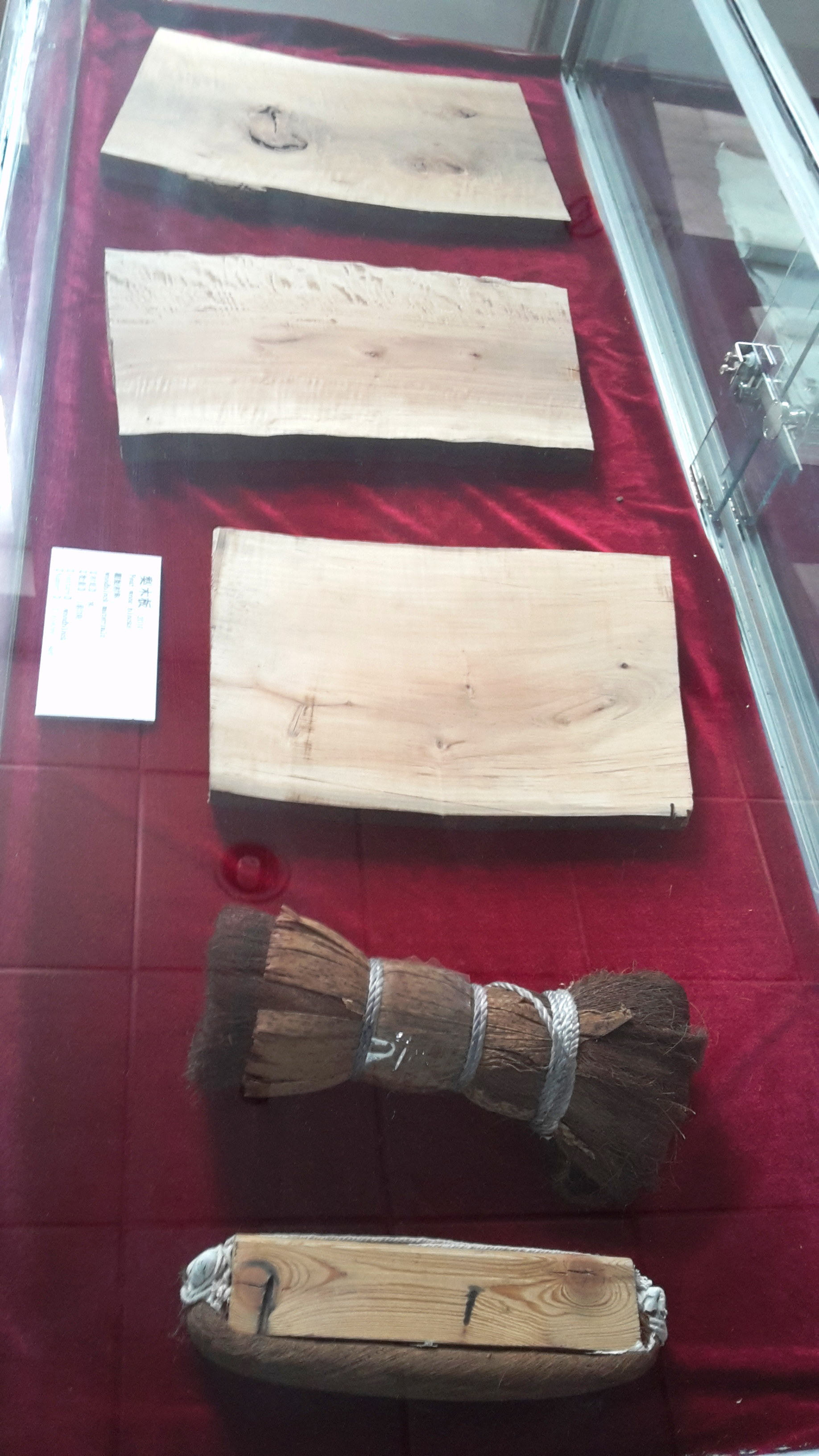 Traditionnal chinese printing tools at the China Printing Museum, at Beijing: Pear Wood plates that will be engraved Brush used to add ink on the plates. A baren ancestor, used to press paper against Ink on the plate